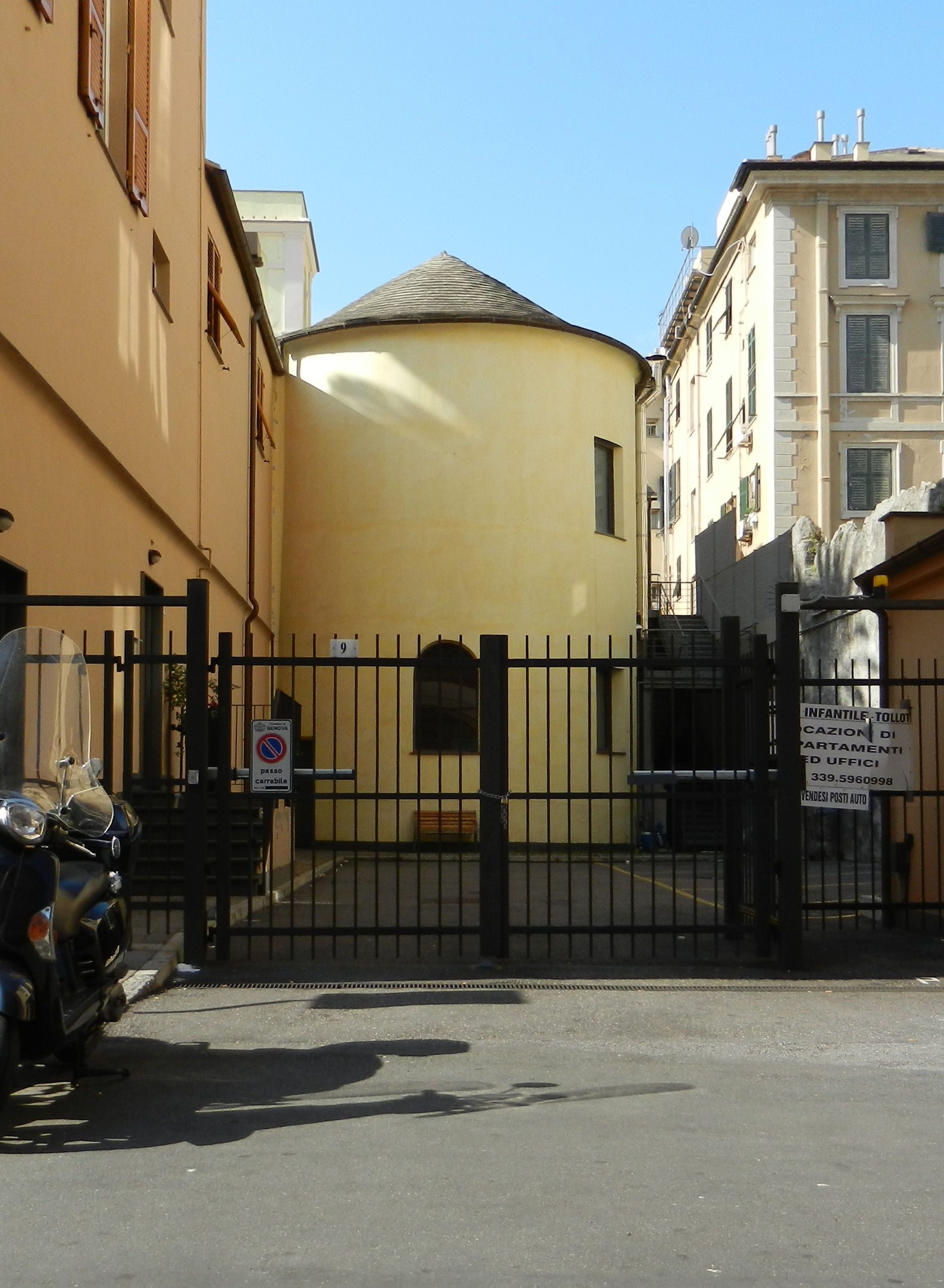 Genoa (Italy), the apse of the former church of Holy Spirit (San Vincenzo street)